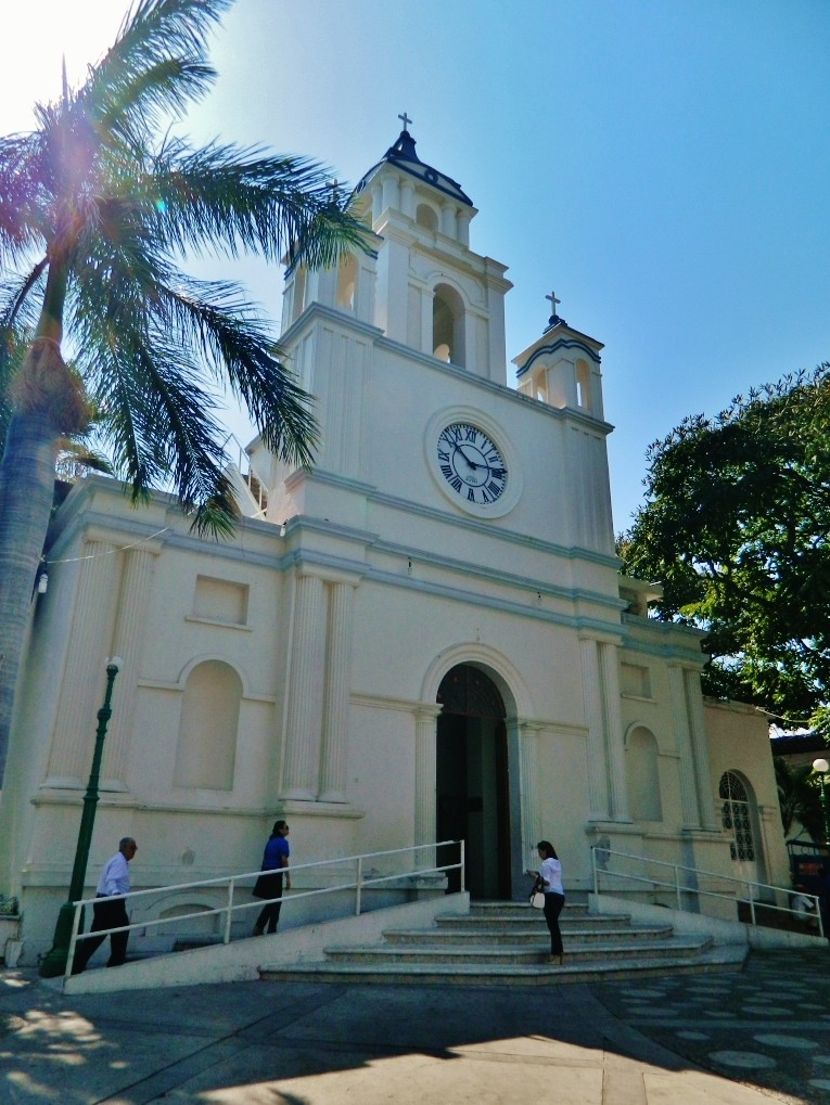 Saint Francis of Assisi Church, Chilpancingo de los Bravo, Guerrero, Mexico